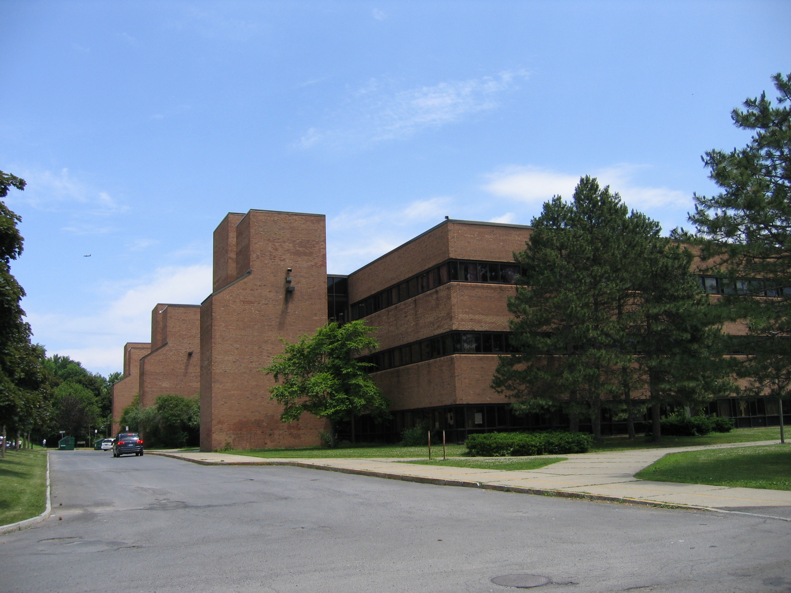 The back of Albany High School in Albany, New York, United States